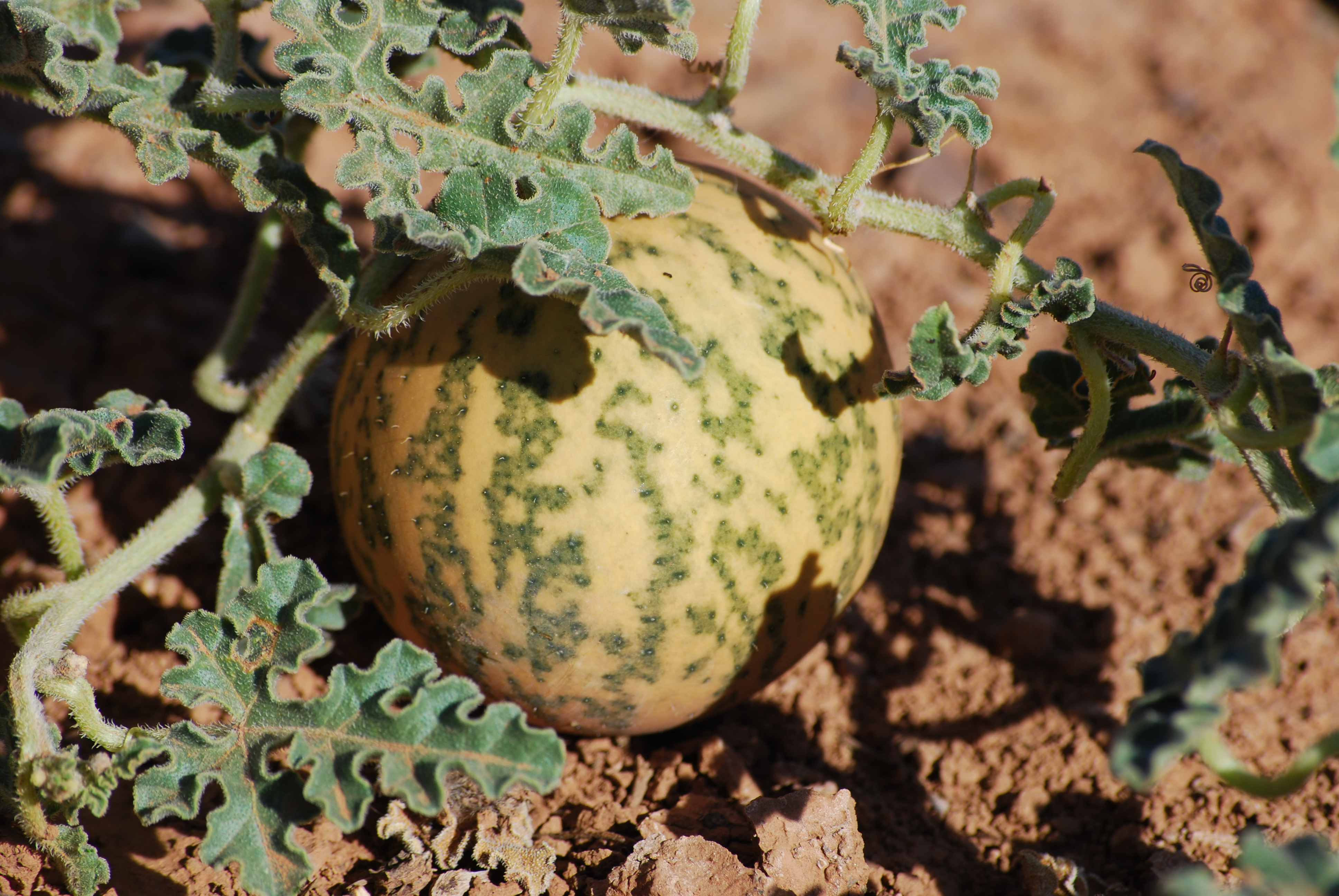 prickly paddy melon (Cucumis myriocarpus), Wilpena Pound, South Australia